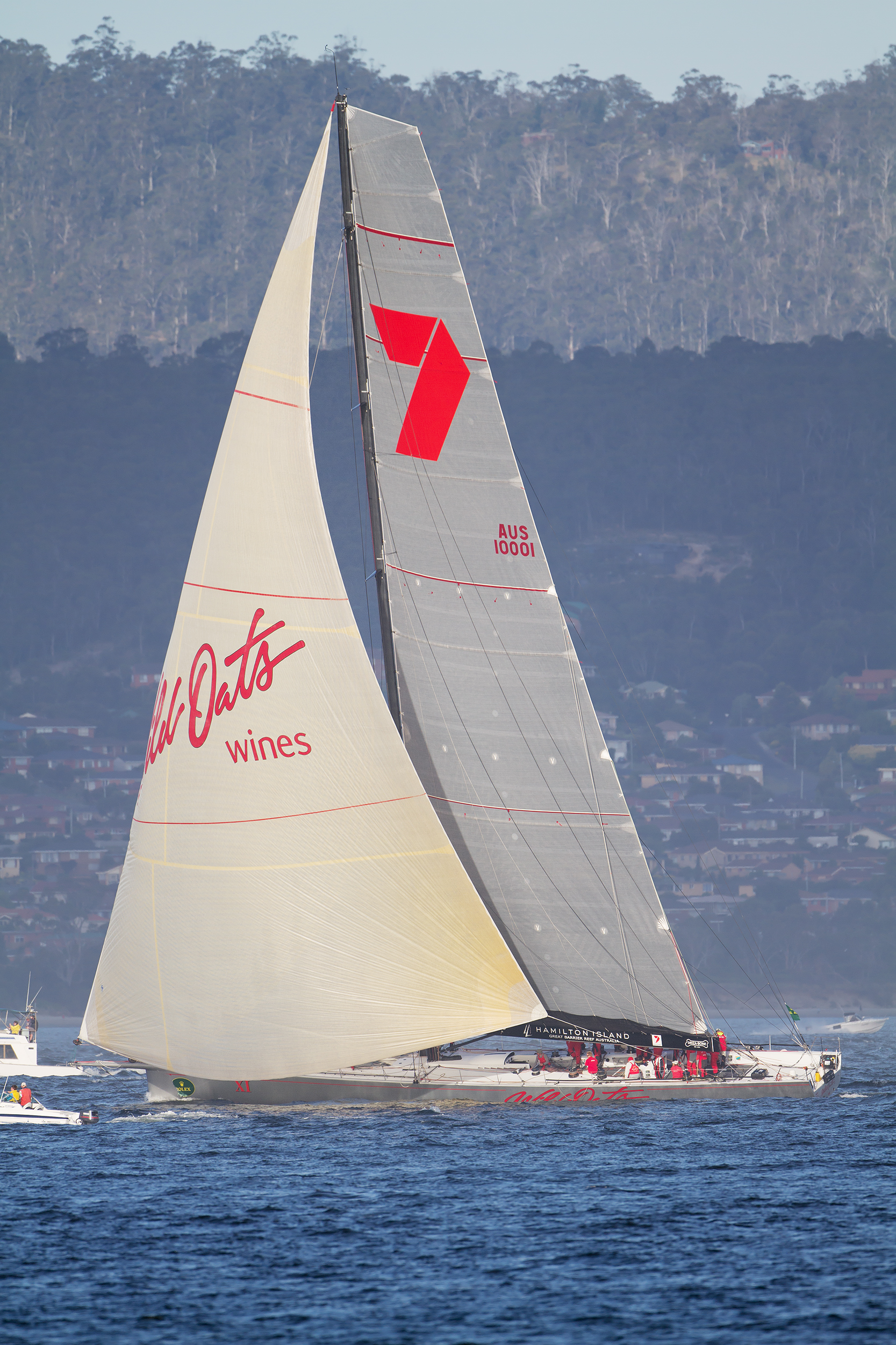 Wild Oats XI about to finish the 2011 the Sydney to Hobart, Taken from Sandy Bay, Hobart, Tasmania, Australia